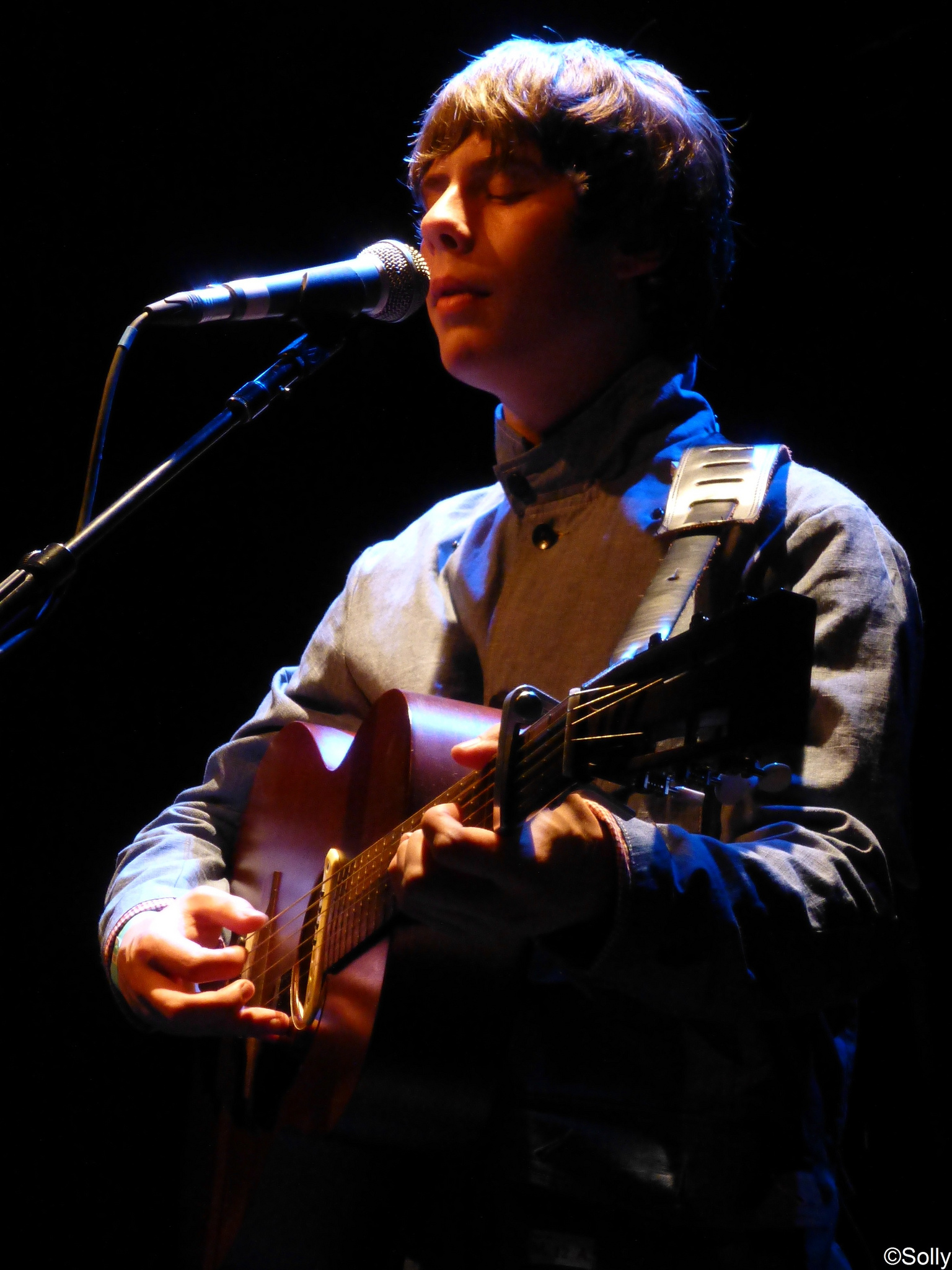 Jake Bugg at la Flèche d'Or